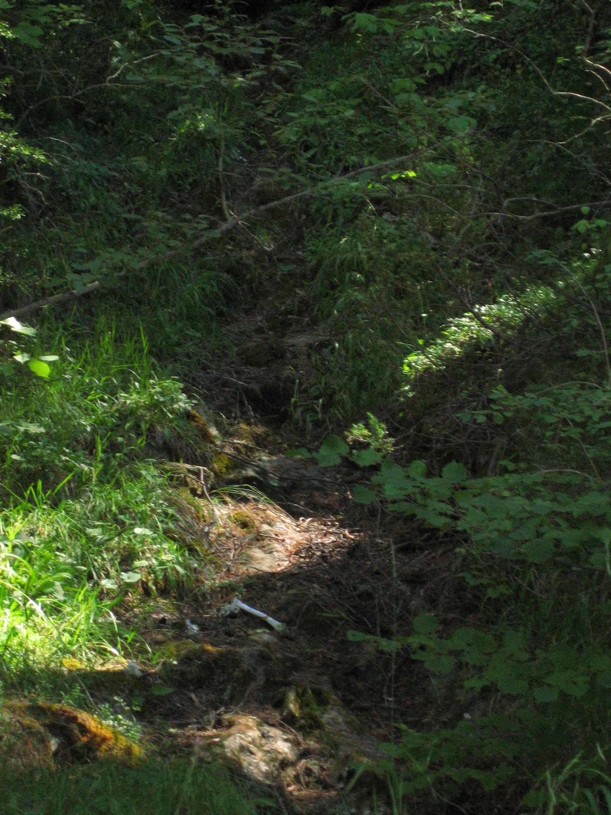 Canal del Bosc de Coma bed, Anyós, La Massana, Andorra